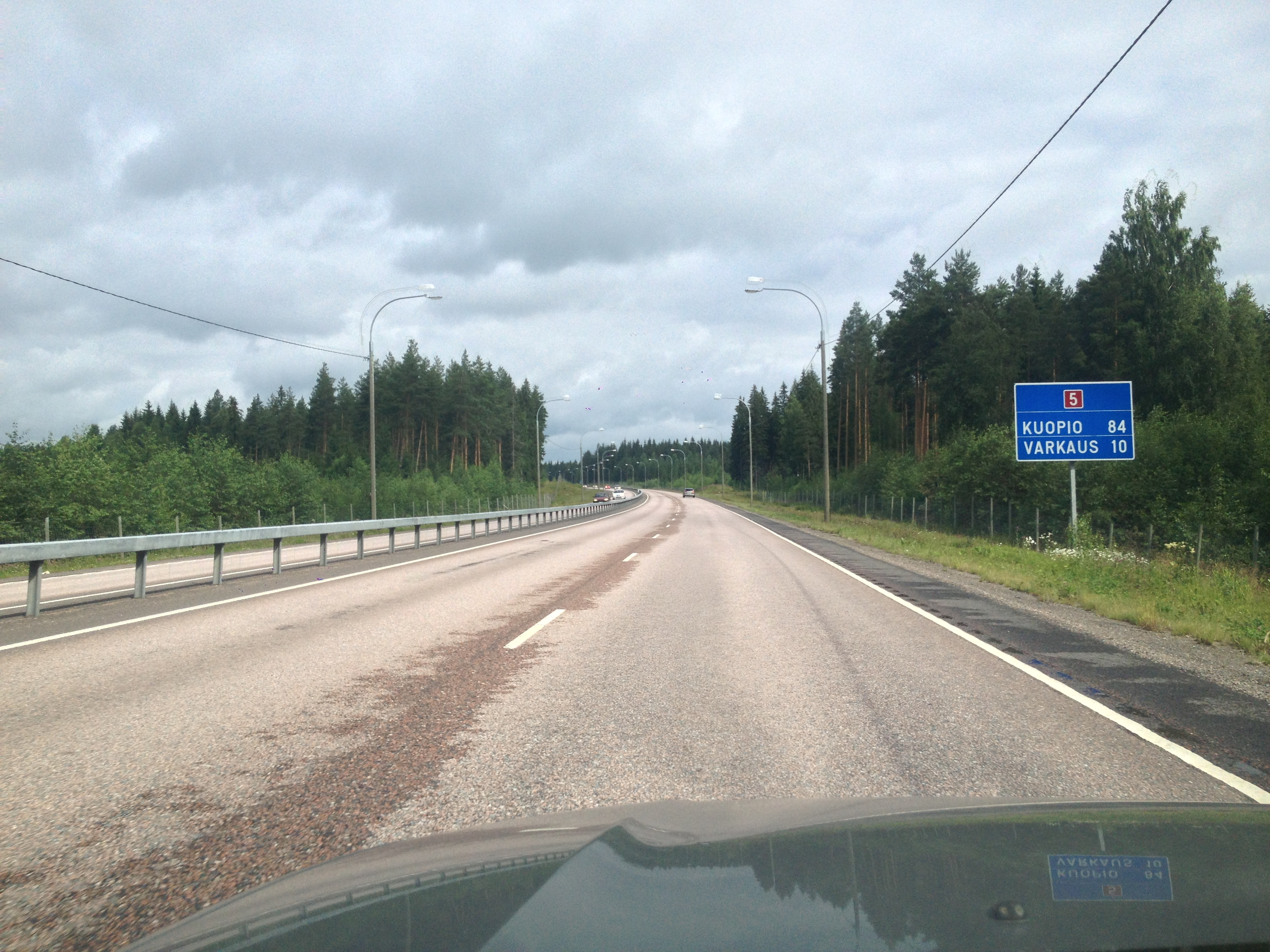 Main road 5 in Joroinen, Finland.